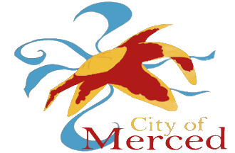 Merced, California flag